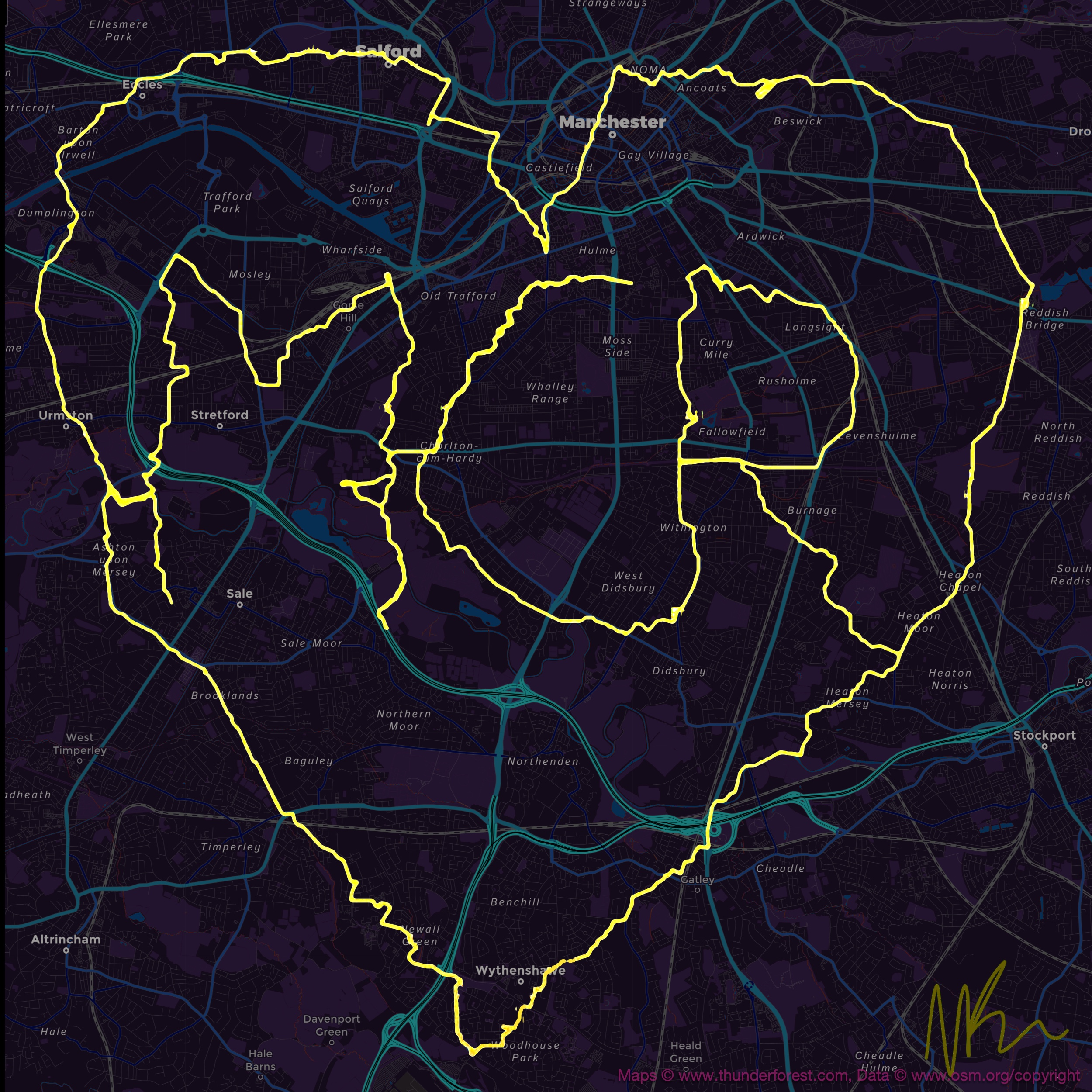 On the anniversary of the Manchester Arena Bombing artist Nathan Rae ran a 67 mile route around Greater Manchester.